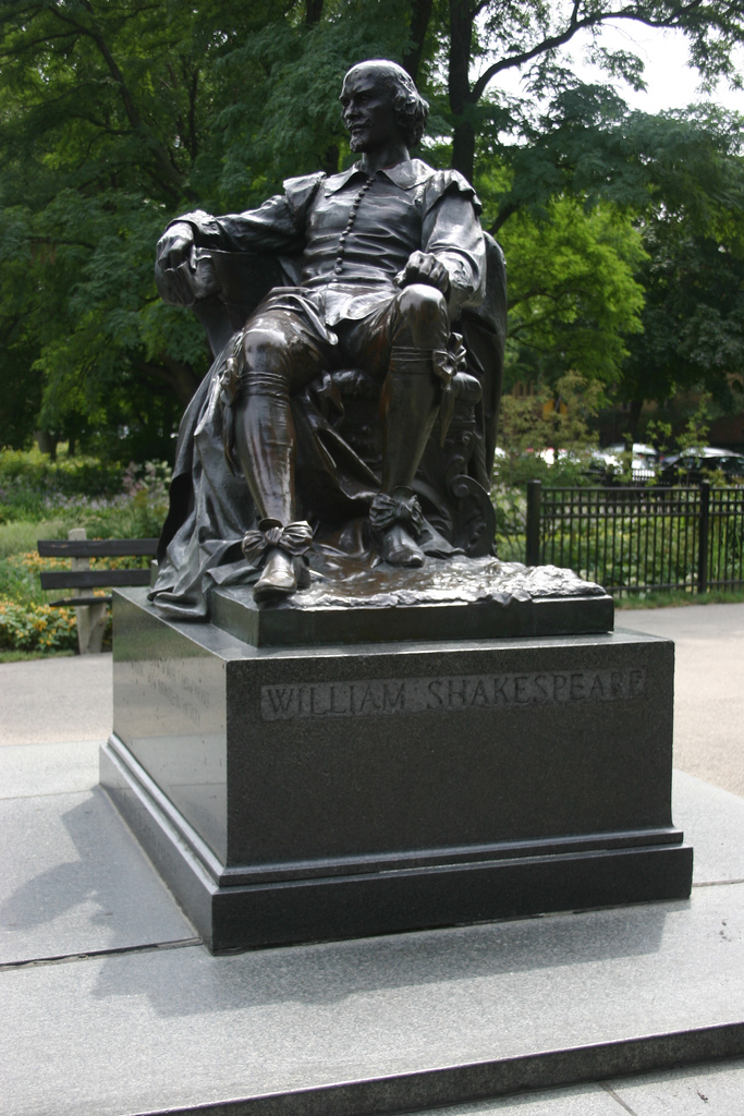 Here's a statue of Will Shakespeare in Lincoln Park. He's big enough that you can easily curl up in his shiny metal lap.